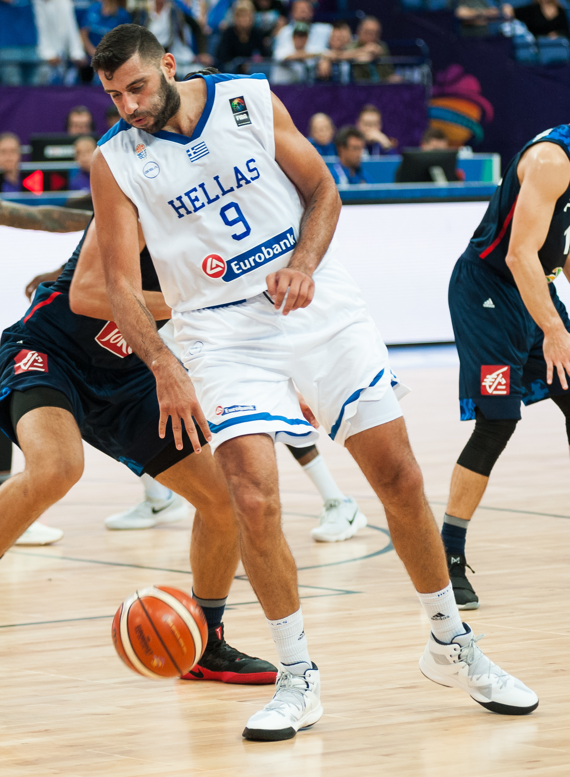 EuroBasket 2017 Group A game between Greece and France at Hartwall Arena in Helsinki, Finland.